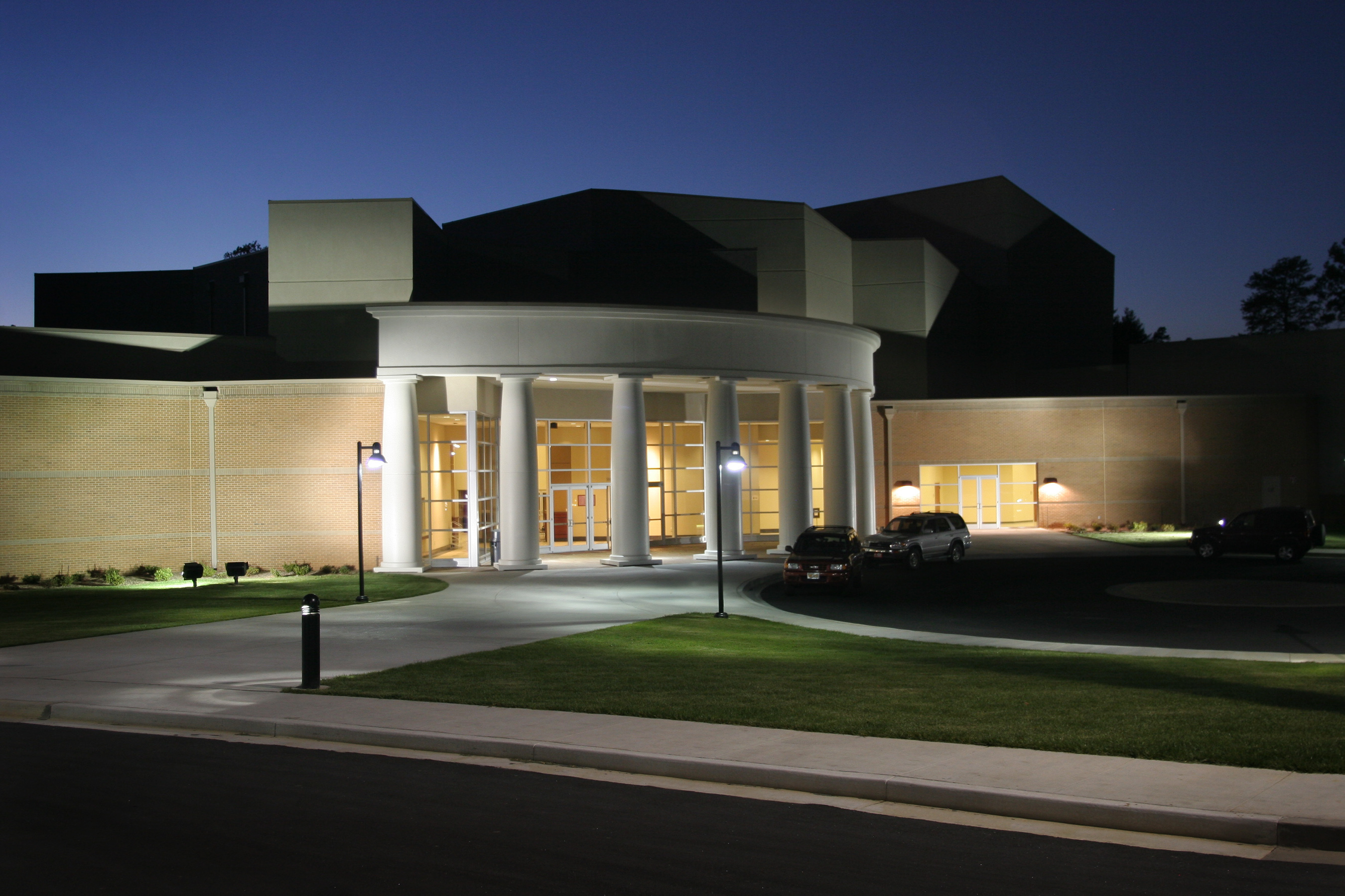 Swanson Center night